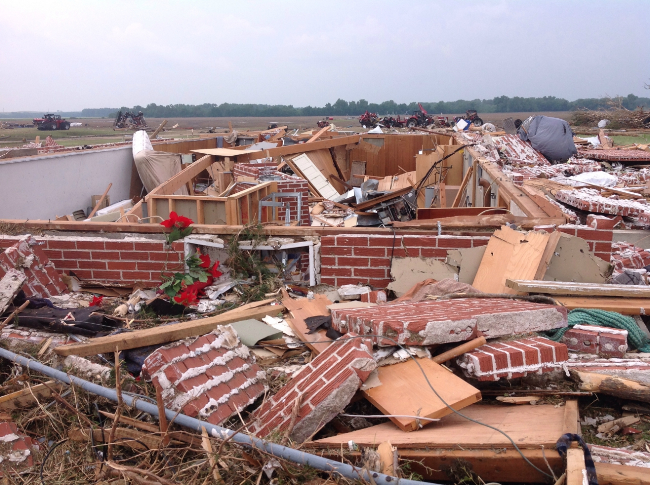 EF4 damage to a brick house near Chapman, Kansas with destroyed farm machinery in the background.